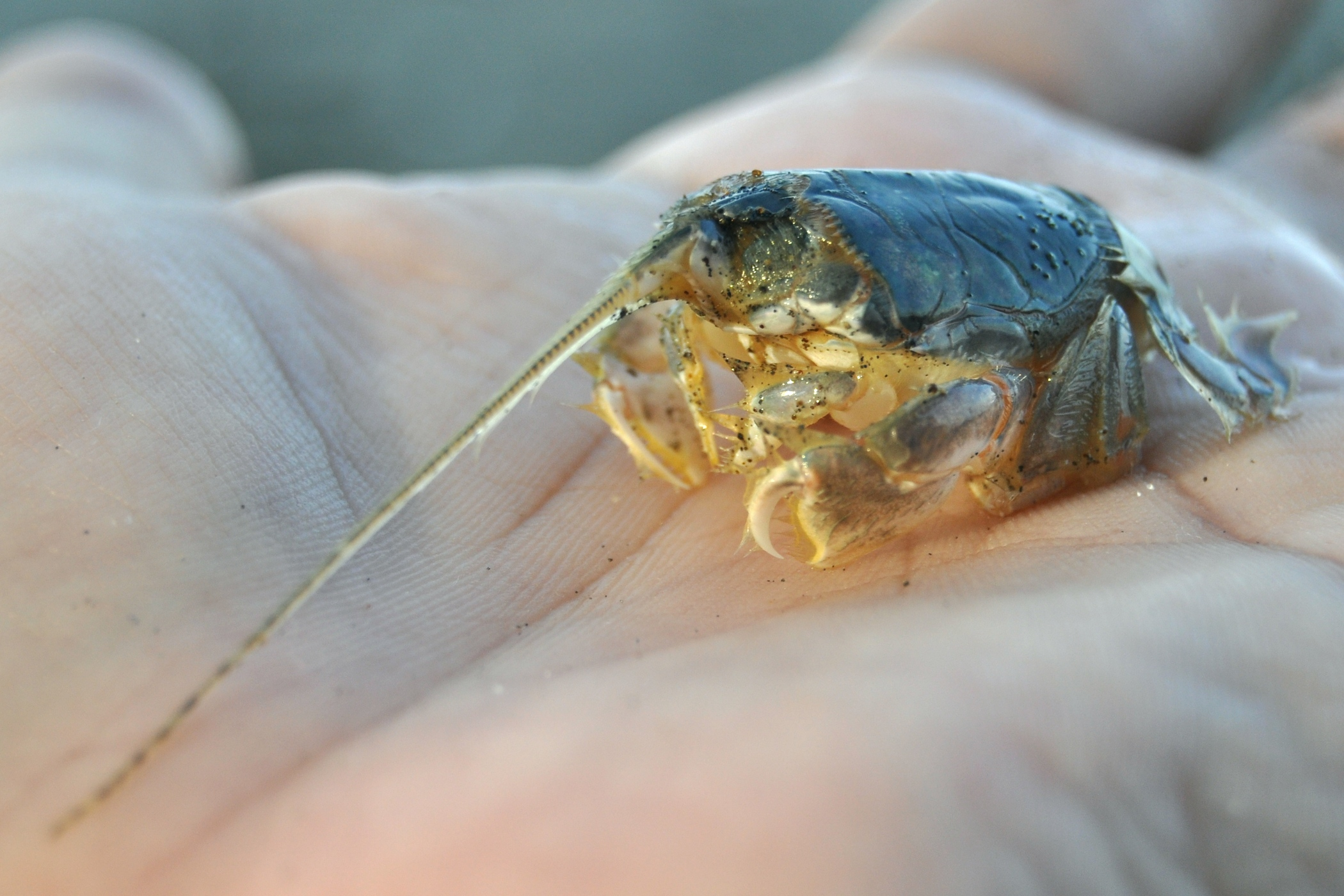 Mole crabs, Albunea symmysta (carapace length 19mm), lateral view. Palabuhanratu, West Java, Indonesia.